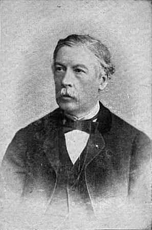 Portrait of Carl von Mettenheimer, German physician.